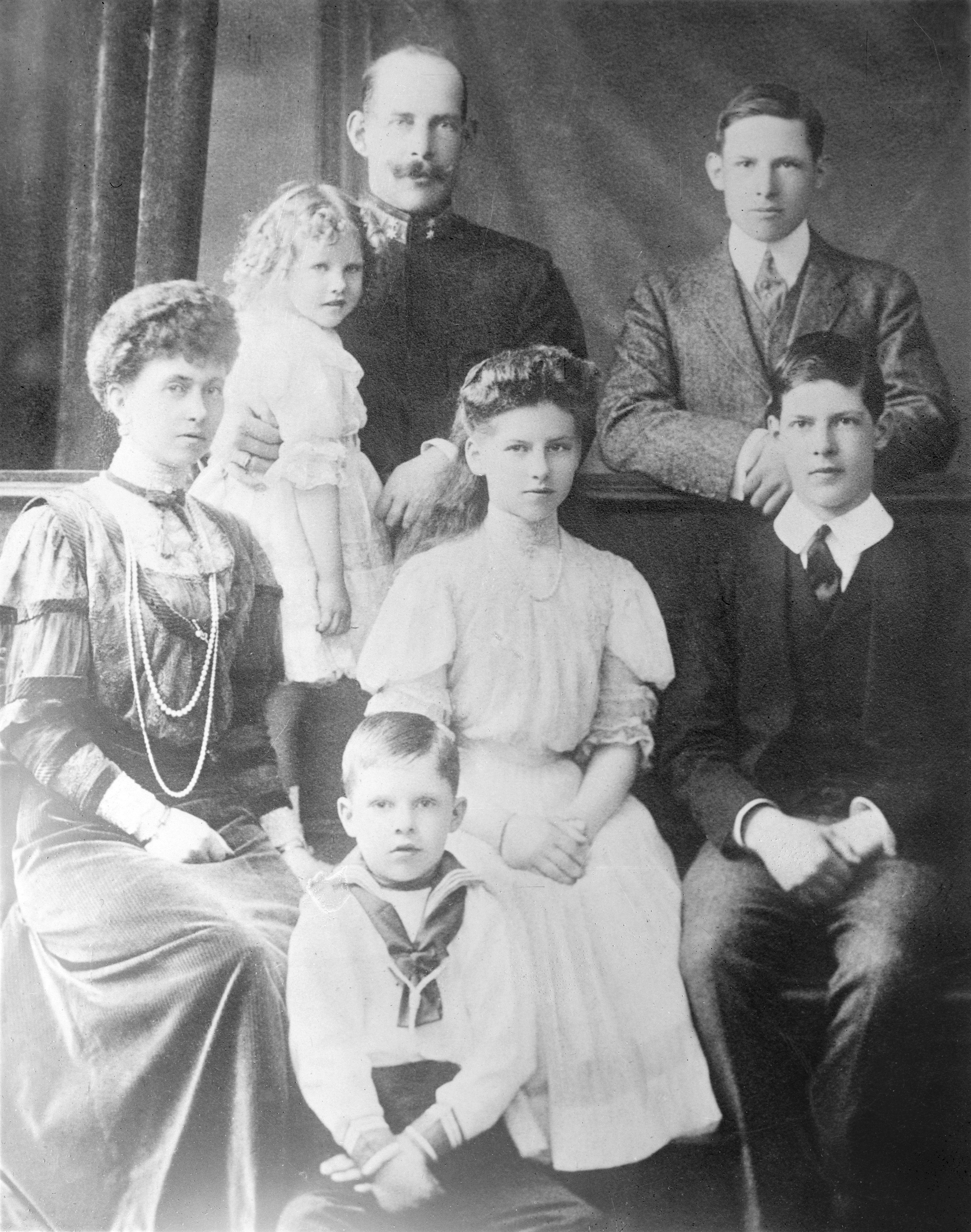 Constantine I of Greece with his family, ca. 1910. Top left: the king holding the toddler Princess Irene. Top right: the future George II. Left: Queen Sophia. Center: Princess Helen. Right: the future Alexander I. Front: the future Paul I. Bain News Service,, publisher. King of Greece and family [between 1910 and 1915] 1 negative : glass ; 5 x 7 in. or smaller. Notes: Title from unverified data provided by the Bain News Service on the negatives or caption cards. Forms part of: George Grantham Bain Collection (Library of Congress). Format: Glass negatives. Repository: Library of Congress, Prints and Photographs Division, Washington, D.C. 20540 USA, General information about the Bain Collection is available at Persistent URL: Call Number: LC-B2- 2583-12